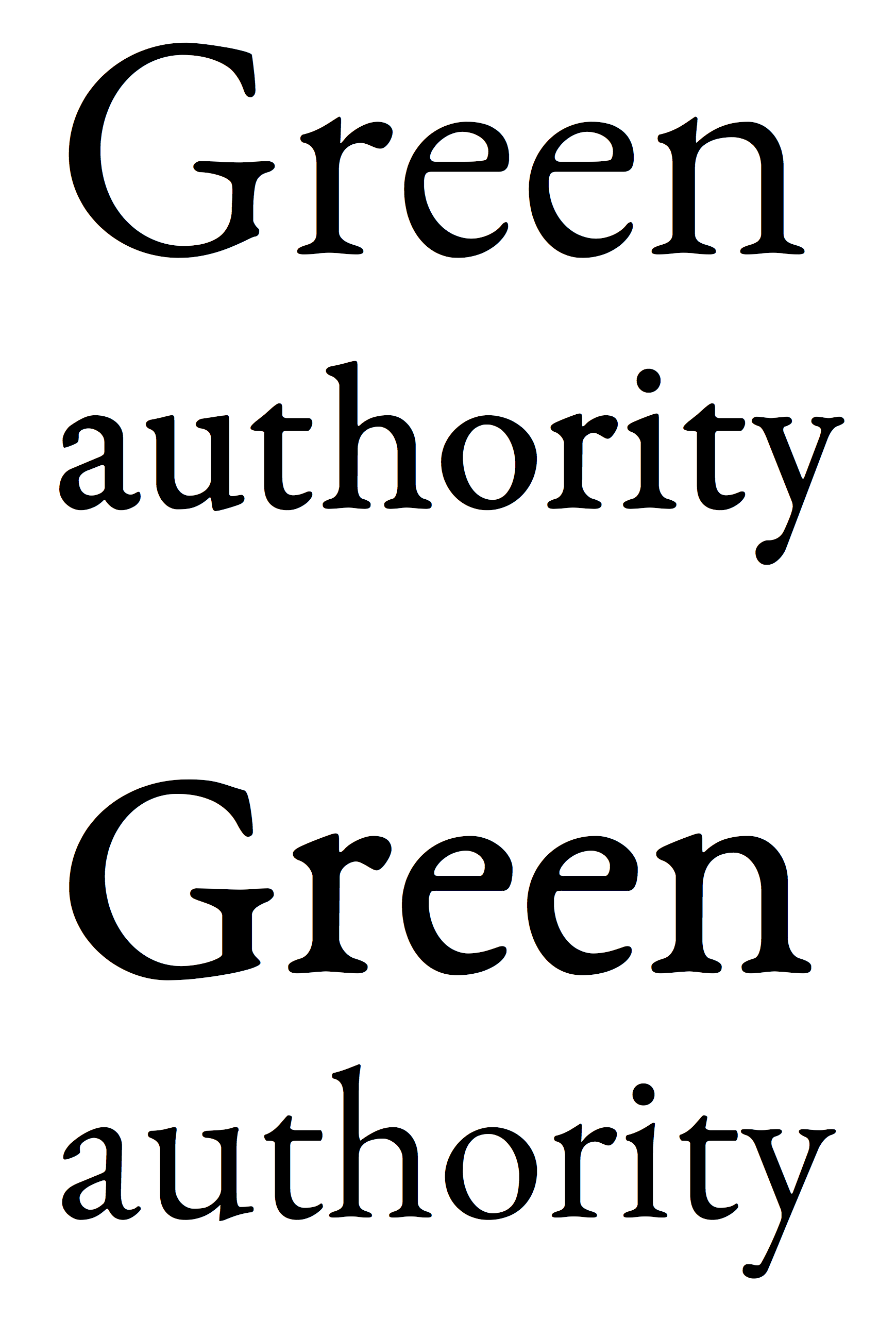 Advanced fonts are issued in optical sizes: different designs for different text sizes. During the metal-type era each size of letters had to be custom-cut by hand, and would be given a different style that looked right at its size. Simpler modern computer fonts, and in particular almost all free and open-source ones, do not offer this, instead using one design for all text sizes. At top is how this is meant to look, using the open-source font EB Garamond: the larger text is in a slimmer size 12 weight, while the smaller text is in a size 08 weight that is bulkier so it looks clear when printed small. At bottom is the wrong way round: size 08 blown up looks heavy and size 12 printed small looks anaemic. It is worth noting that this is quite a subtle example and other fonts have much bigger changes across optical sizes. For example, the caption style of PT Serif massively increases the x-height (the height of small lower-case letters). This image was suggested by an illustration in the article "How To Choose The Right Face For A Beautiful Body" by Dan Reynolds.